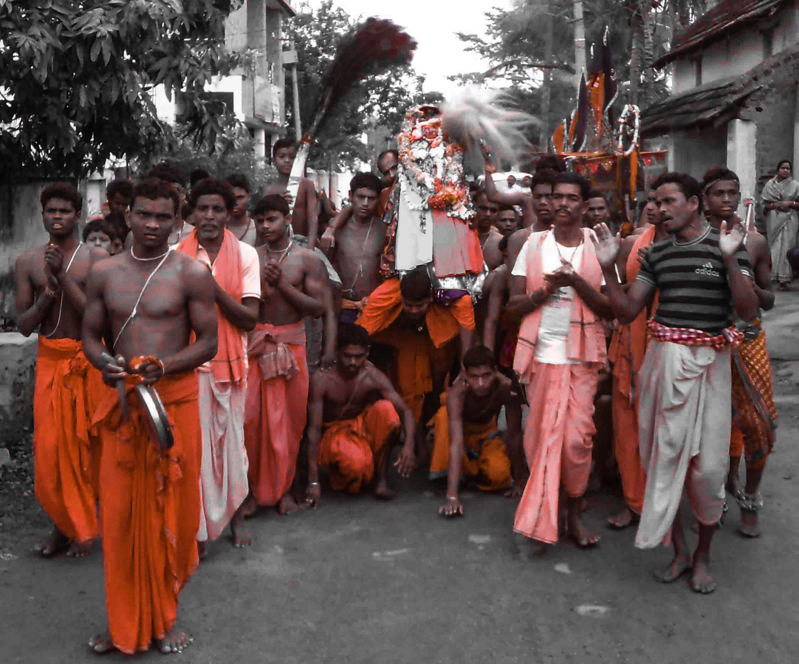 Danda Jatra is one of the most important traditional dance festivals organized in different parts of South Odisha The Danda Nata festival is being held in the month of Chaitra of every year. Danda begins on an auspicious day before the Chaitra Sankranti or Meru Parba with traditional worship and fasting. The total number of days for the festival is 13, 18 or 21 daysOnly male persons take part in this festival.[2] The participants are known as the 'Bhoktas'. All the `Bhoktas` or 'Danduas' lead a very pious life for all these days during the festival and they avoid eating meat, fish or cohabiting during this period. It is believed that the present day Danda Nata is a part of the ancient Chaitra Yatra festivals being celebrated every year at Taratarini Shakti/Tantra Peetha. The Kalinga Emperors organised this Chaitra festival for their Ista devi, Taratarini. As per folk lore, during ancient period after 20 days of Danda practice the Danduas must assemble near Taratarini Shakti/Tantra Peetha (which is ista devi of the Great Kalinga rulers) and with some hard rituals culminate their Danda on the last day. This practice continued for many years and Chaitra Yatra which is still celebrated at Tara Tarini Shakti/Tantra Peetha in the month of Chaitra, is also another part of that old tradition. But later this Danda Nata spread to different parts of Utkala and Koshala. Now the old tradition was changed. Danda Nata groups increased abnormally and the Danduas culminating their Danda in their own villages or locality instead of Taratarini Shakti/Tantra Peetha. This photo has been taken in the country: India